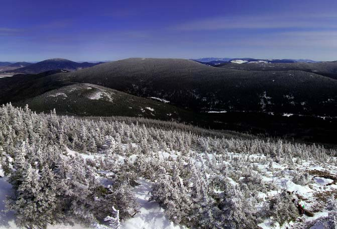 View of the summit of the Mount Gosford, in southern Quebec (Canada), near of the United States Border, that we seen far into the picture.